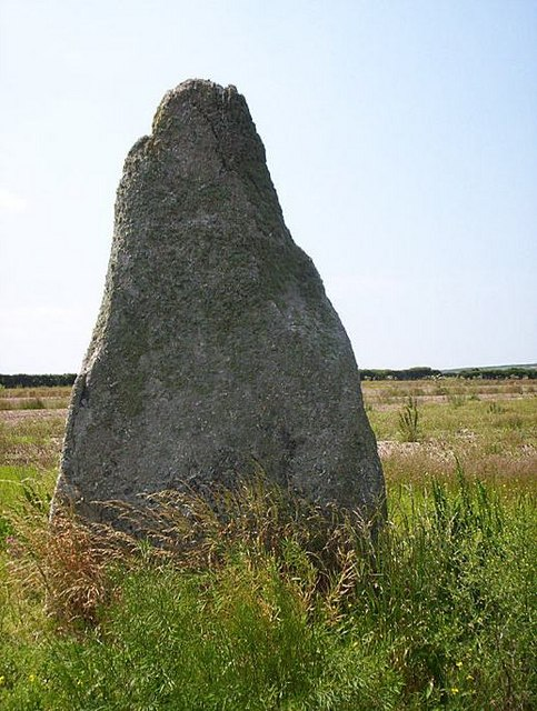 The Blind Fiddler Standing Stone Situated just off a very busy road to Penzance.